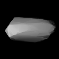 3D convex shape model of 161989 Cacus, computed using light curve inversion techniques. J. Hanuš, J. Ďurech, M. Brož, B. D. Warner (June 2011). "A study of asteroid pole-latitude distribution based on an extended set of shape models derived by the lightcurve inversion method". Astronomy and Astrophysics 530: A134. ISSN 0004-6361. arXiv